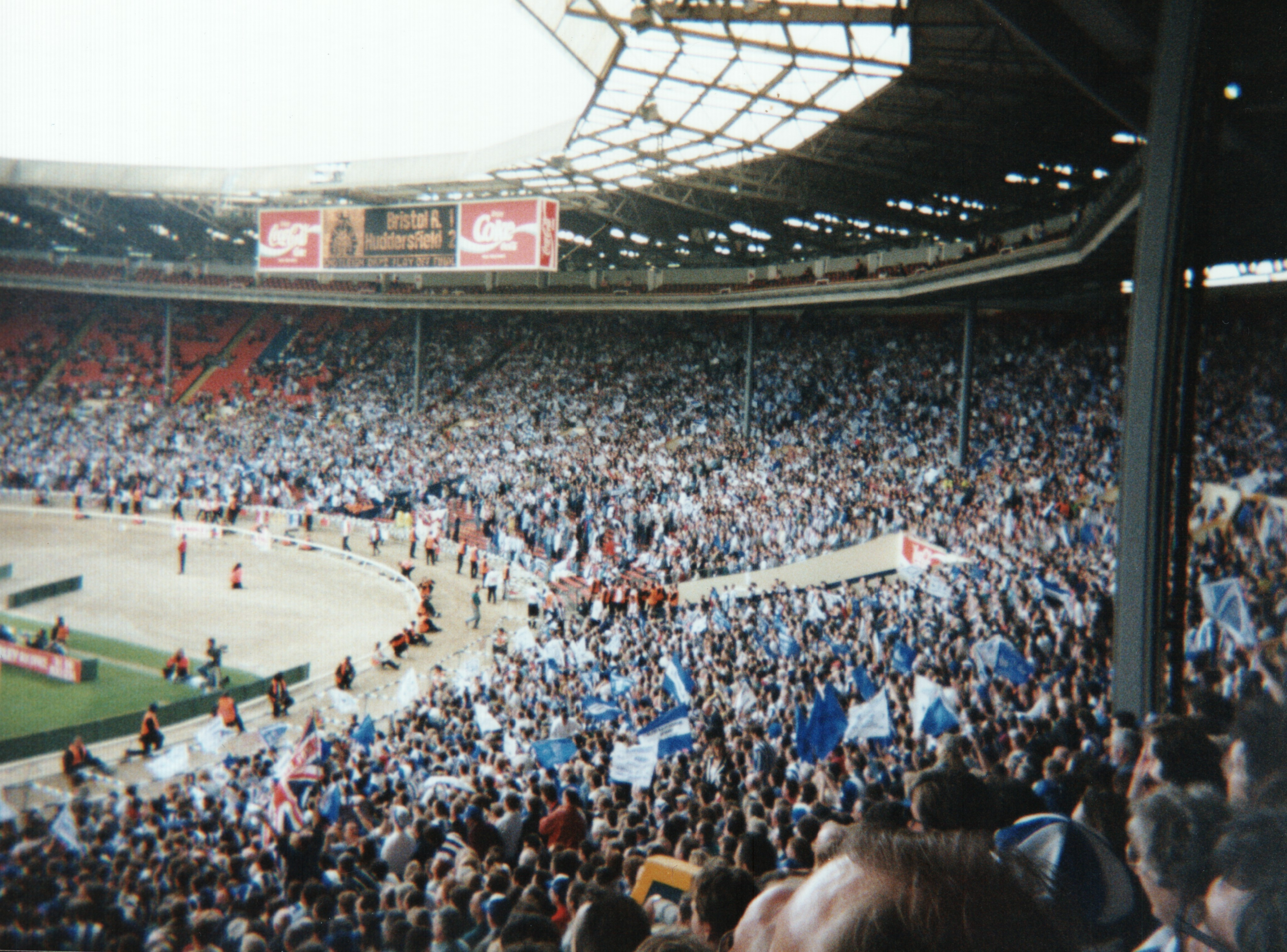 Huddersfield achieved promotion with this. In the old Wembley stadium